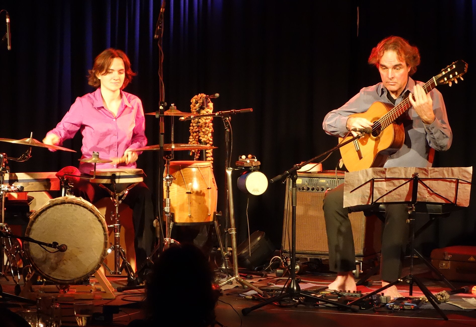 Falk Zenker (right) on stage with Nora Thiele in Pirna, Kleinkunstbühne Q24